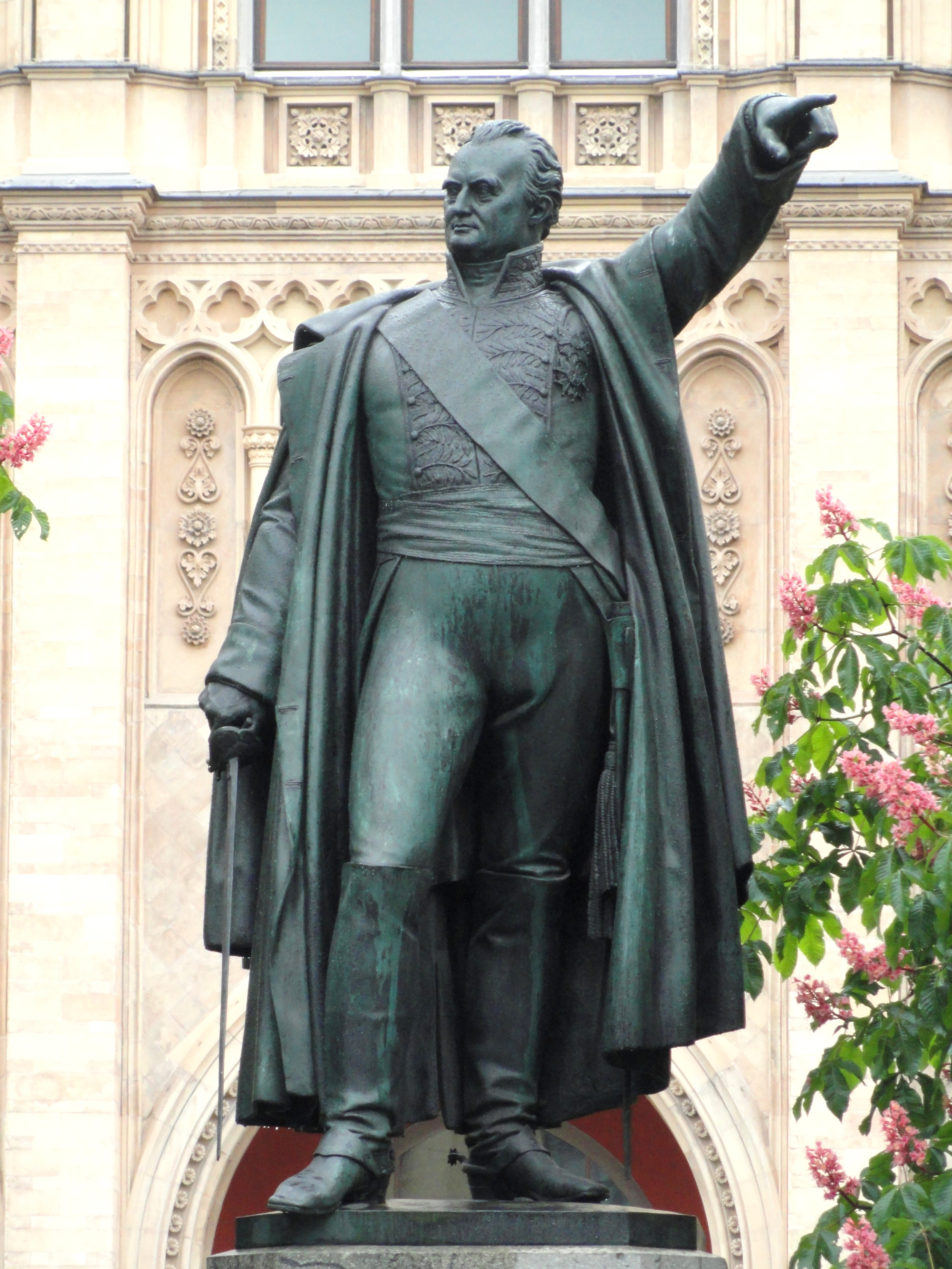 Statue of Erasmus Graf von Deroy, by Johann Halbig, Maximilianstraße, Munich, Germany. Copyright has expired on the statue.